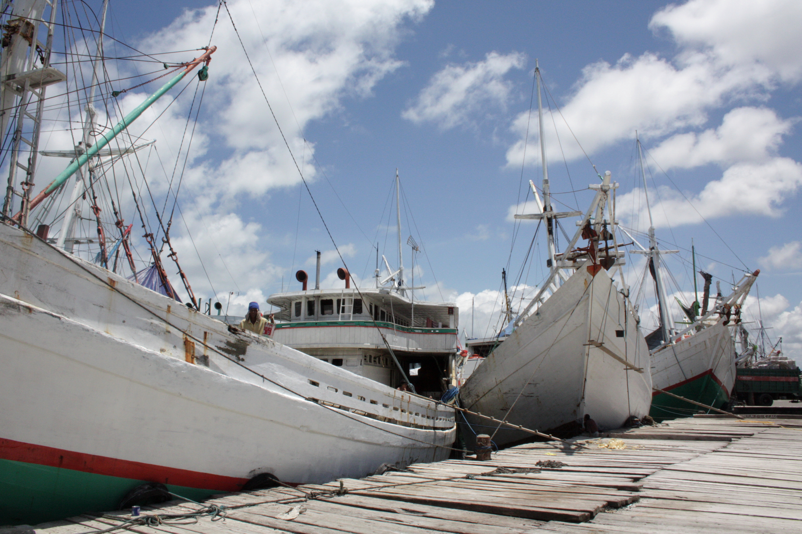 Makassar traditional port